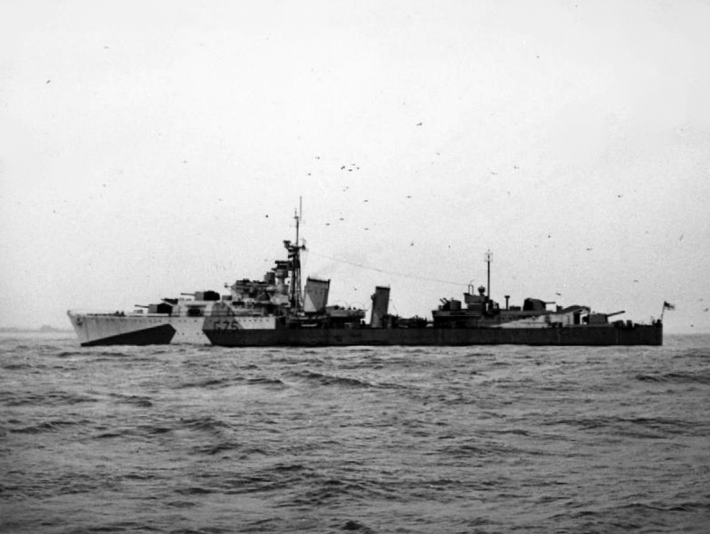 The British Royal Navy destroyer HMS Eskimo (F75).